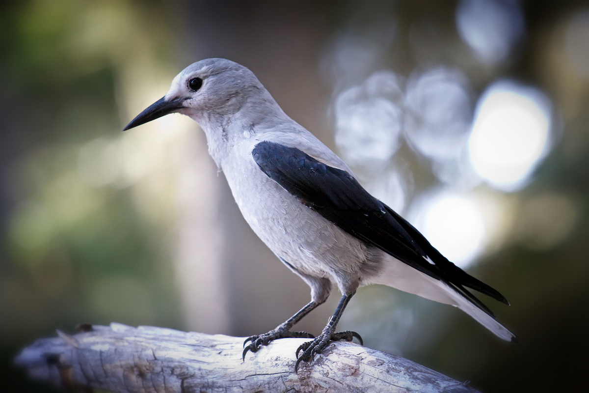 Clark's NutcrackerLatina: Nucifraga columbiana